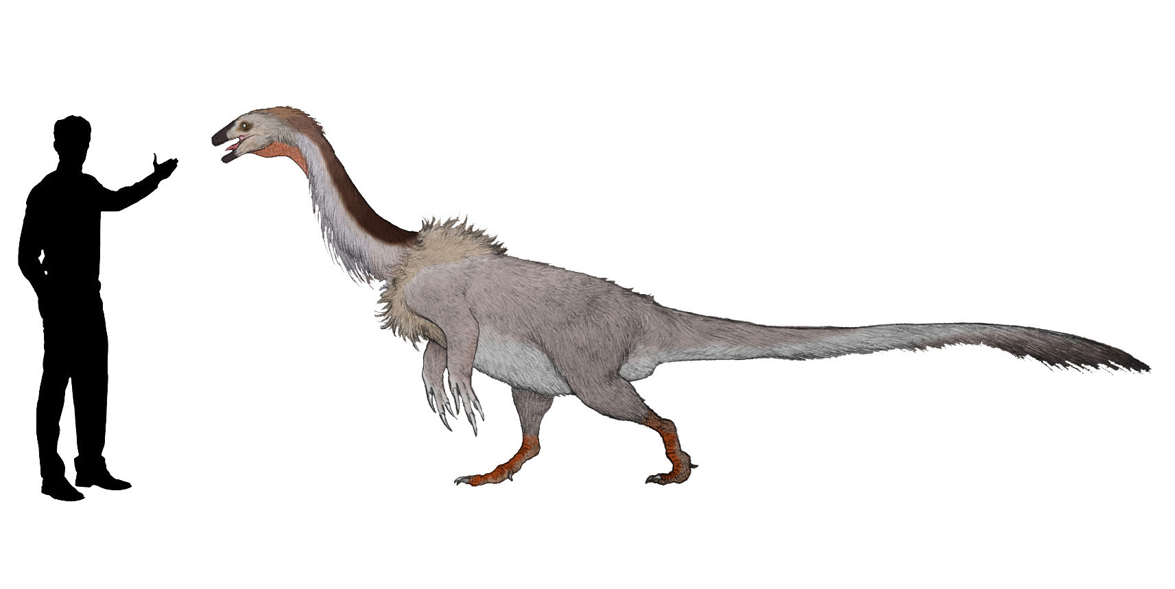 A scale Falcarius restoration